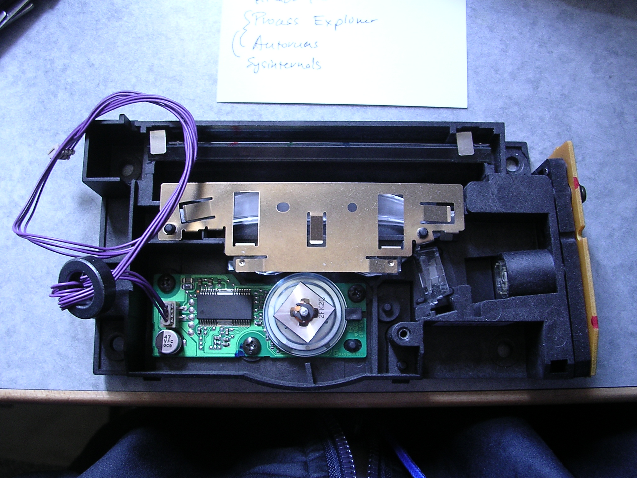 A shot of the print head from an old laser printer. The infrared laser (right), rotating mirror, and most of the lenses are visible. The back of a business card is shown for size reference.